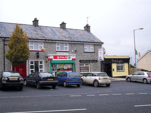 Belleeks Post Office On Main Street. There seems to be a spelling variation, Belleek and Belleeks.